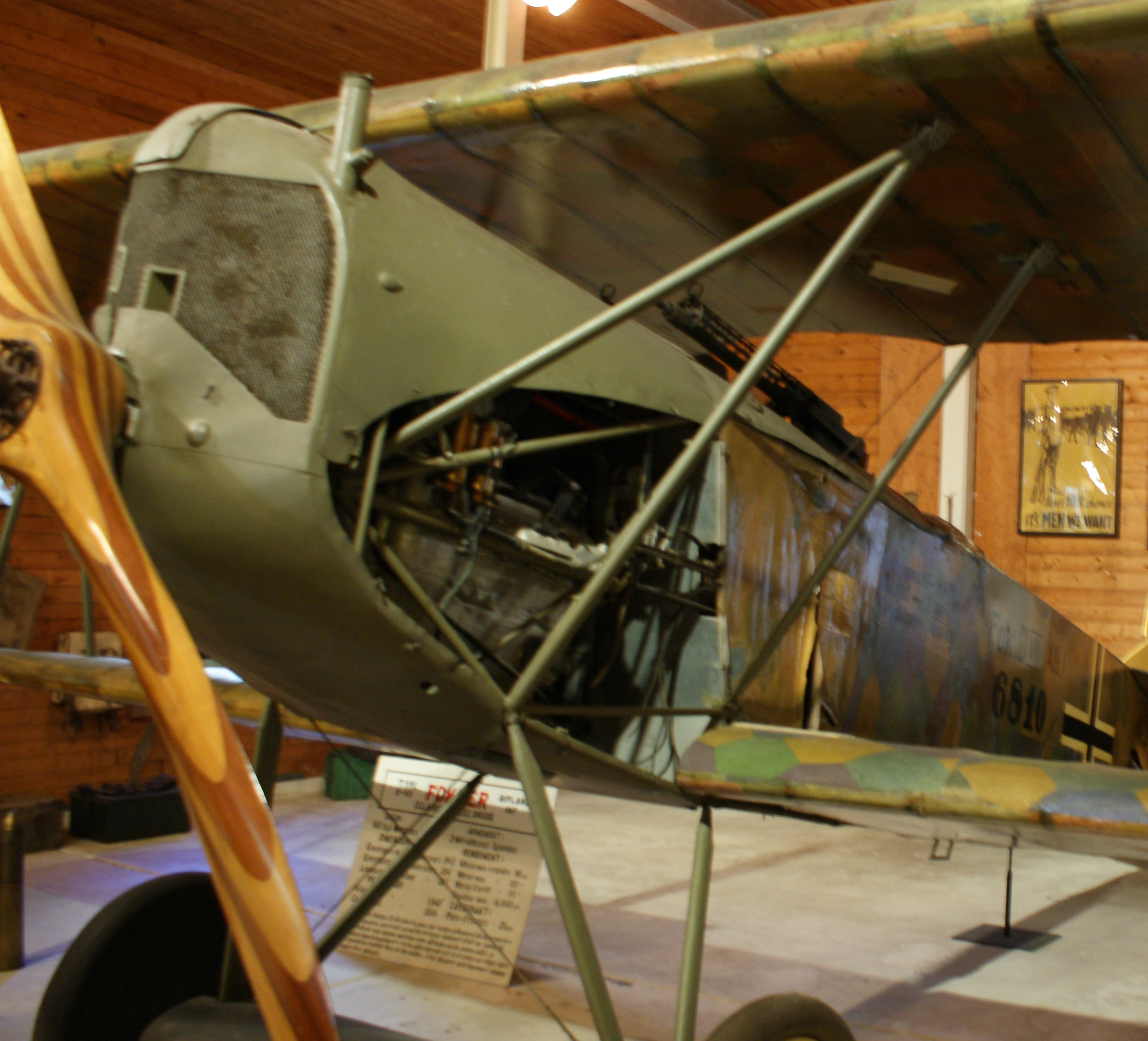 Fokker DVII World War I bi-plane exhibited in Knowlton, Quebec